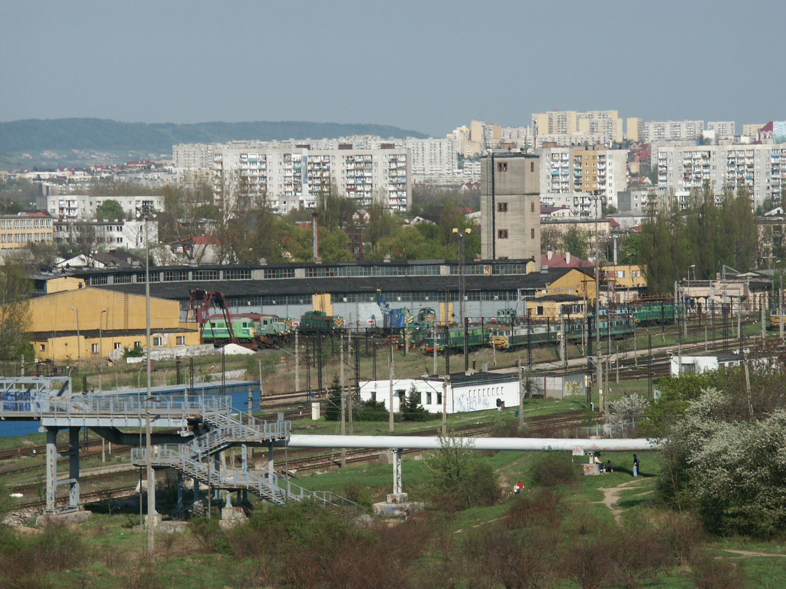 Kielce Herbskie depot roundhouse. In a background Herby district.